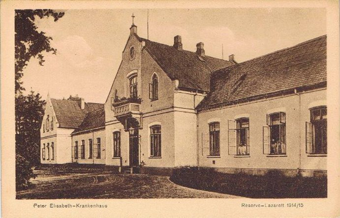 historical postcard depicting the Peter-Elisabeth-Krankenhaus in Delmenhorst (Germany) around 1914/1915